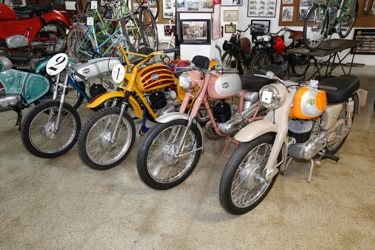 Mymsa Motorcycles in the Museu Isern de la Moto